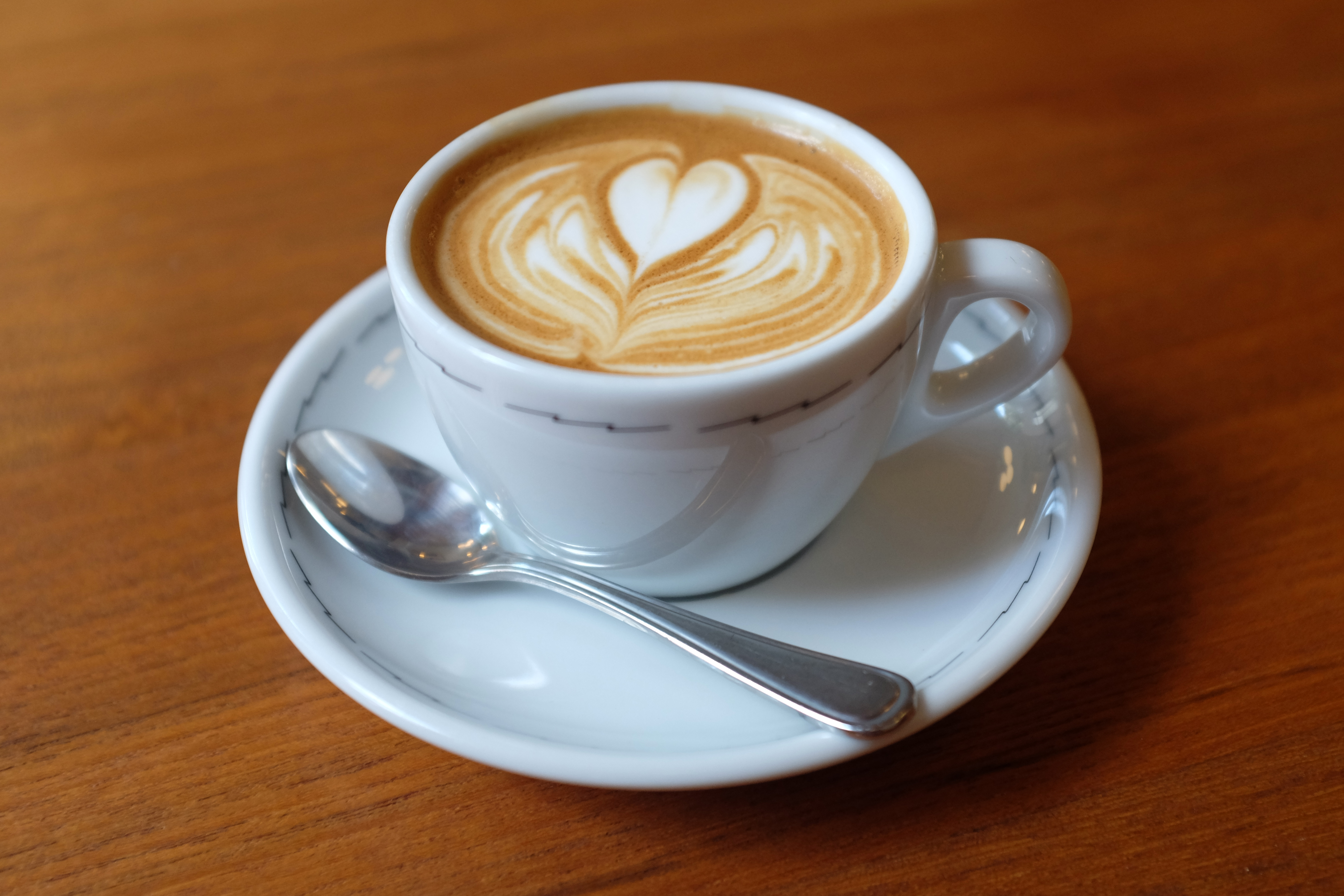 Cappuccino at Sightglass Coffee in San Francisco